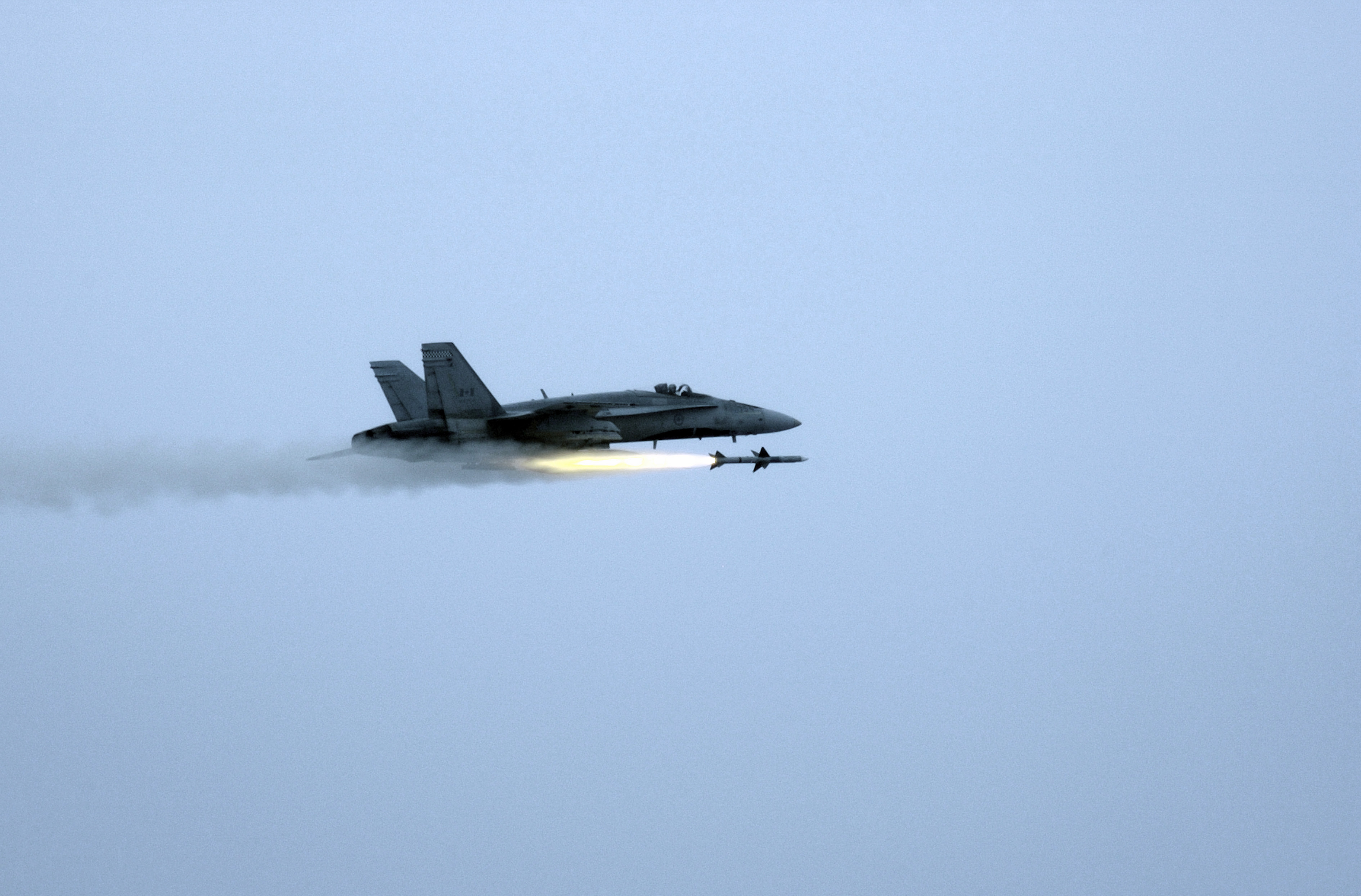 A Canadian Forces McDonnell Douglas CF-18A Hornet from the 4th Wing, Cold Lake, Canada, fires an AIM-7 Sparrow air-to-air missile at a MQM-107E Streaker aerial target drone over the Gulf of Mexico during a "Combat Archer" mission on 9 August 2004. The unit was deployed to Tyndall Air Force Base, Florida (USA). "Combat Archer" missions are a weapons system evaluation program.